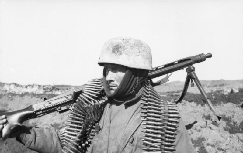 XI Air Corps (XI. Fliegerkorps) Fallschirmjäger (paratrooper) standing with ammunition belt and shouldered MG 42 machine gun in Russia